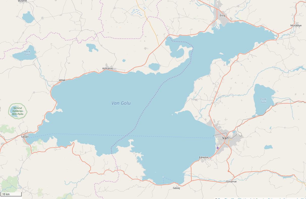 Map of Lave Van with the towns by its edge Kiswahili: Ramani ya Ziwa Van inaonyesha mji iliyopo kando lake